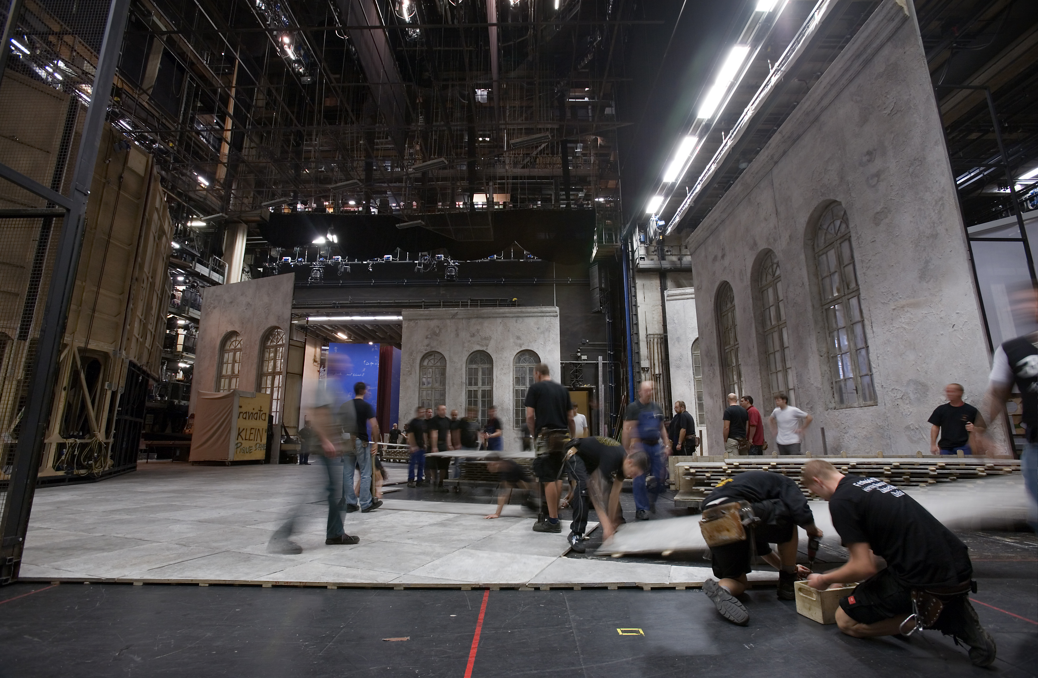 Vienna Opera Backstage, Austria